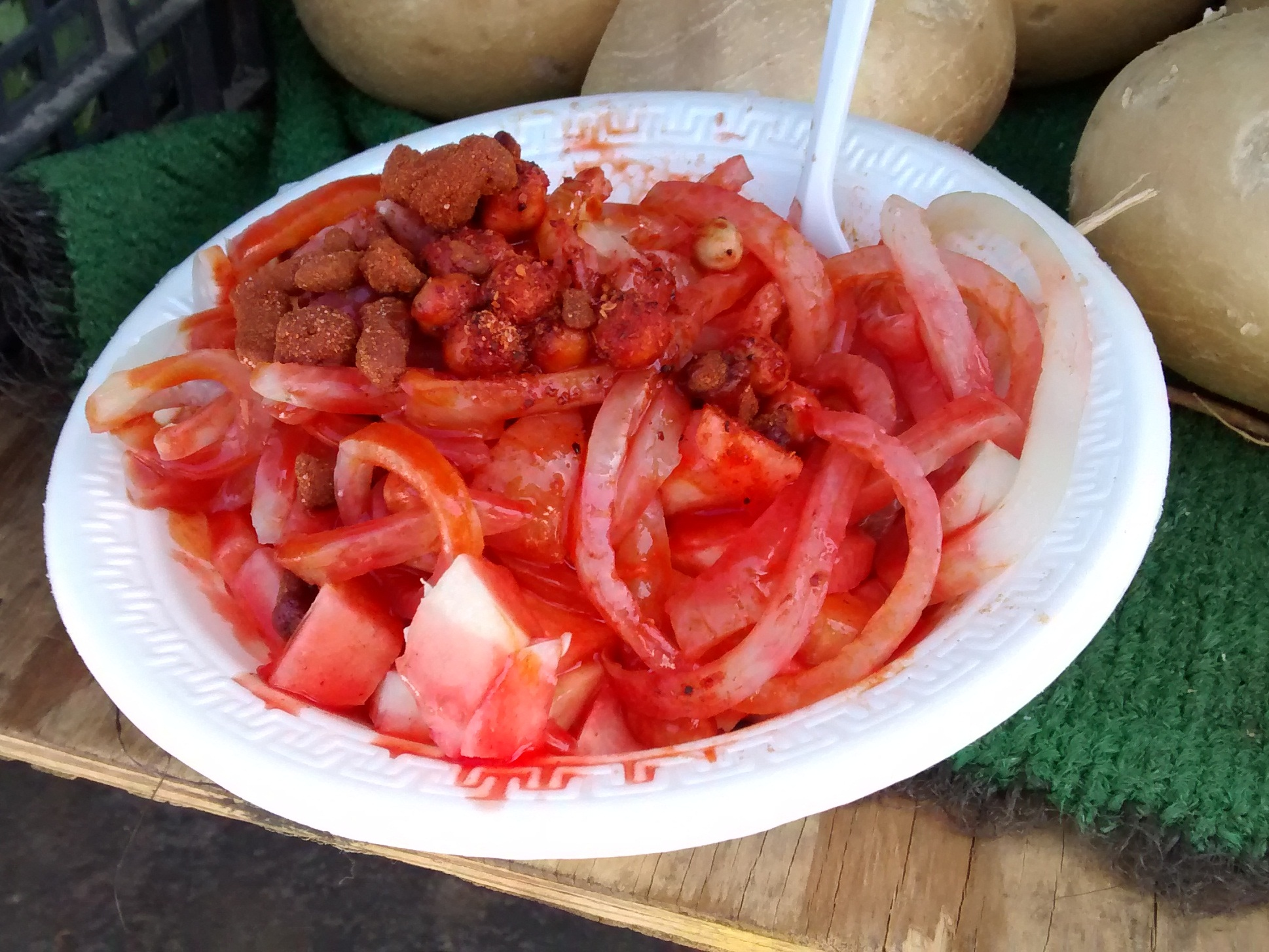 A bowl of tostilocos with cueritos, jicama, pepino, chamoy sauce and tamarind candy.